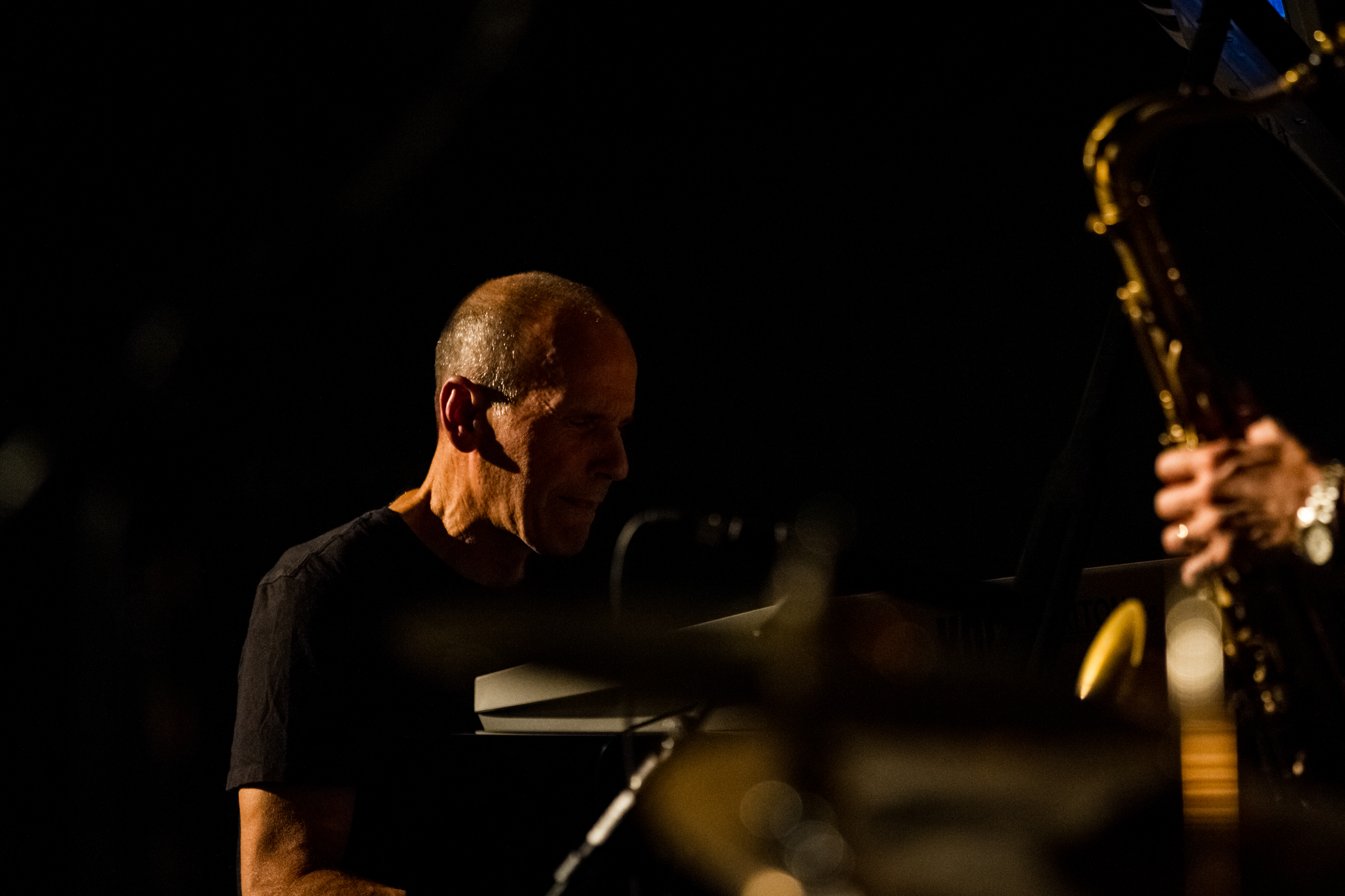 Russell Ferrante with Yellowjackets - Leverkusener Jazztage 2015